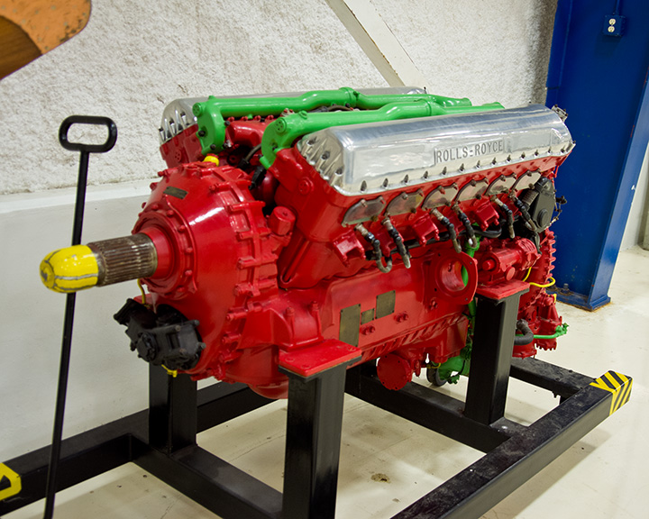 A Rolls-Royce Merlin aircraft engine at the Lone Star Flight Museum in Galveston, TX. Engines similar to this powered many Allied airplanes during World War II, including the P-51 Mustang, the British Spitfire and Hurricane fighters, and the British Lancaster bomber. After the war, the Spanish even used the Merlin to power the German Bf-109 fighters they used into the 1960s.